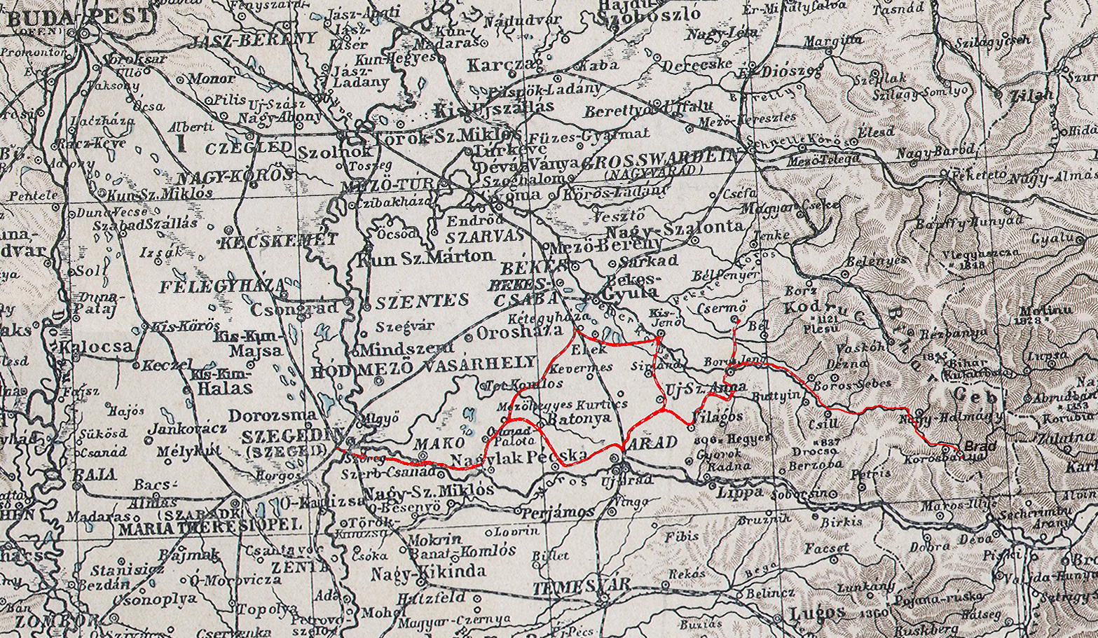 Cut of the map of Austria-Hungary from Andrées Hand-Atlas 1890, ACsEV (United Arad and Csanád Railways) marked in red by me